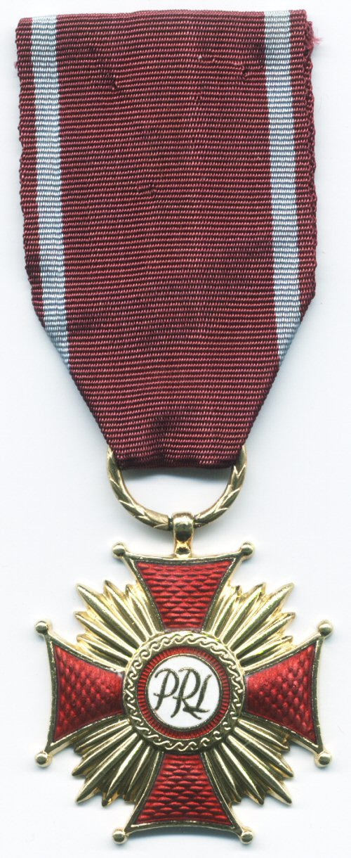 Złoty Krzyż Zasługi (Golden Cross of Merit) - Polish state civil award (variant of 1960-1991, with PRL initials for Polska Rzeczpospolita Ludowa - Polish People's Republic).